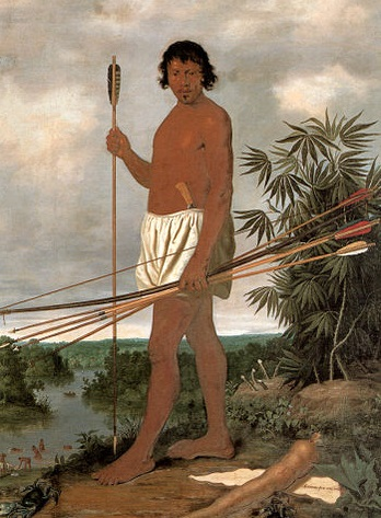 scanned from the book Albert Eckhout: een Hollandse kunstenaar in Brazilië ISBN 9040089299